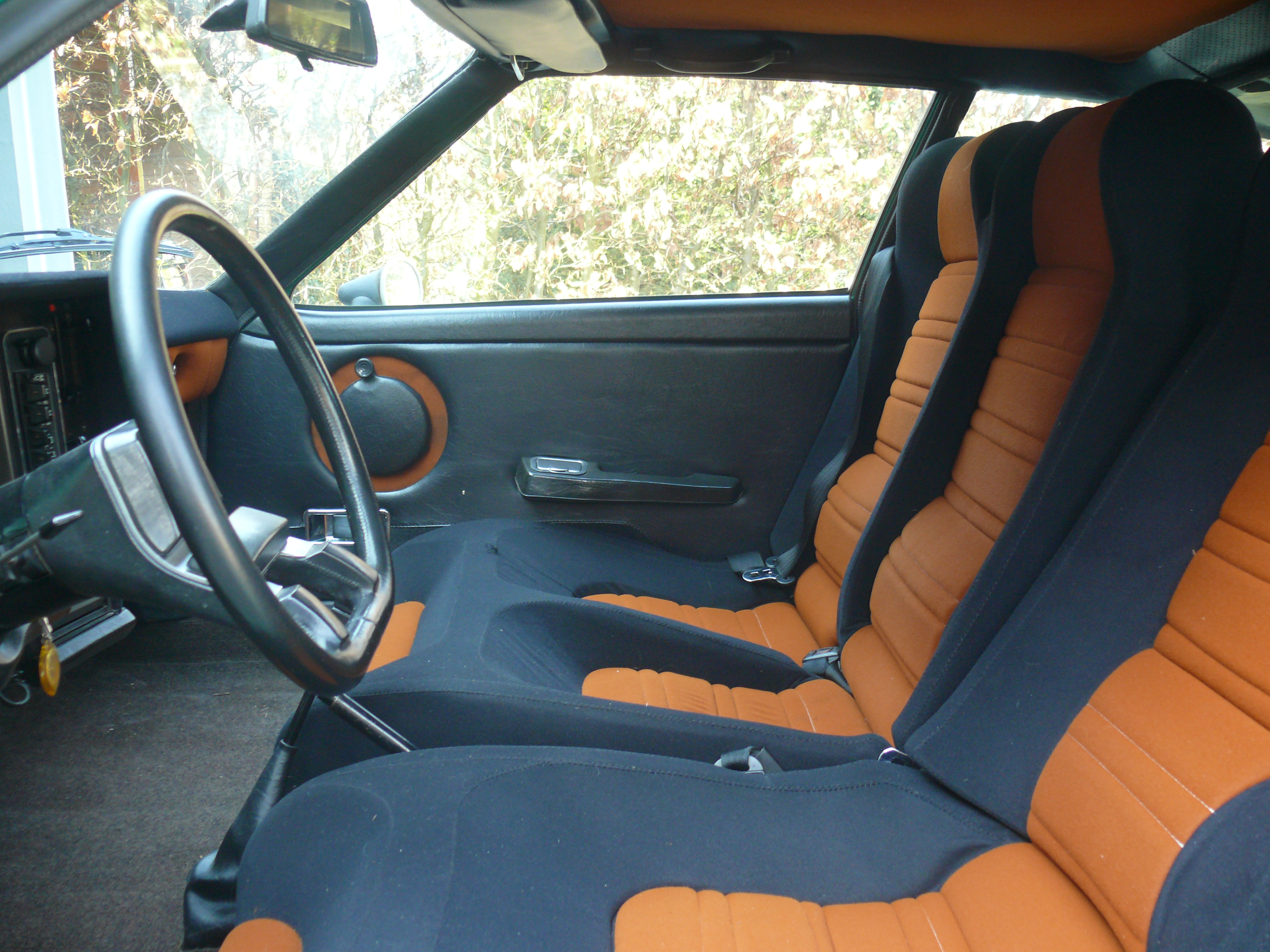 Interior of Series 1 Matra-Simca Bagheera, showing the three-seat arrangement.